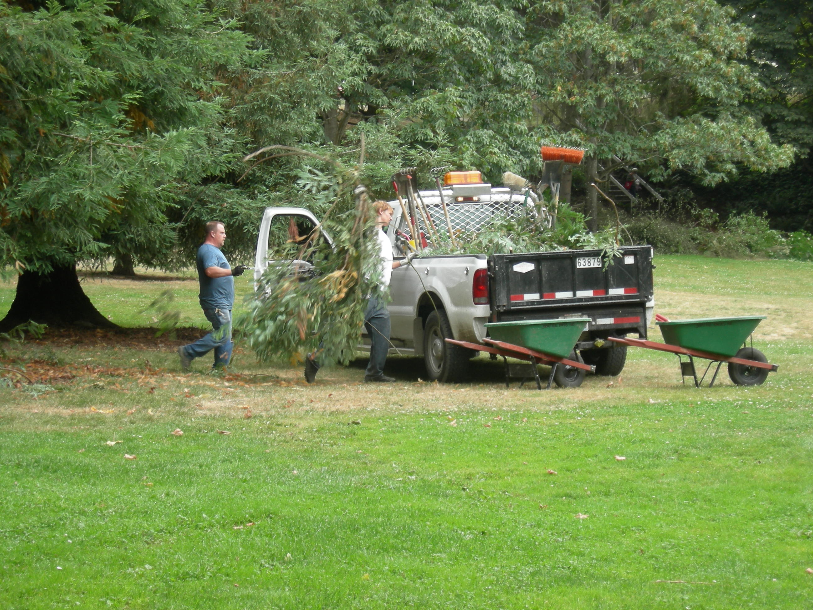 Groundskeepers at work in Cowen Park, Seattle, Washington, which is on the border between the University District and the Ravenna neighborhood.